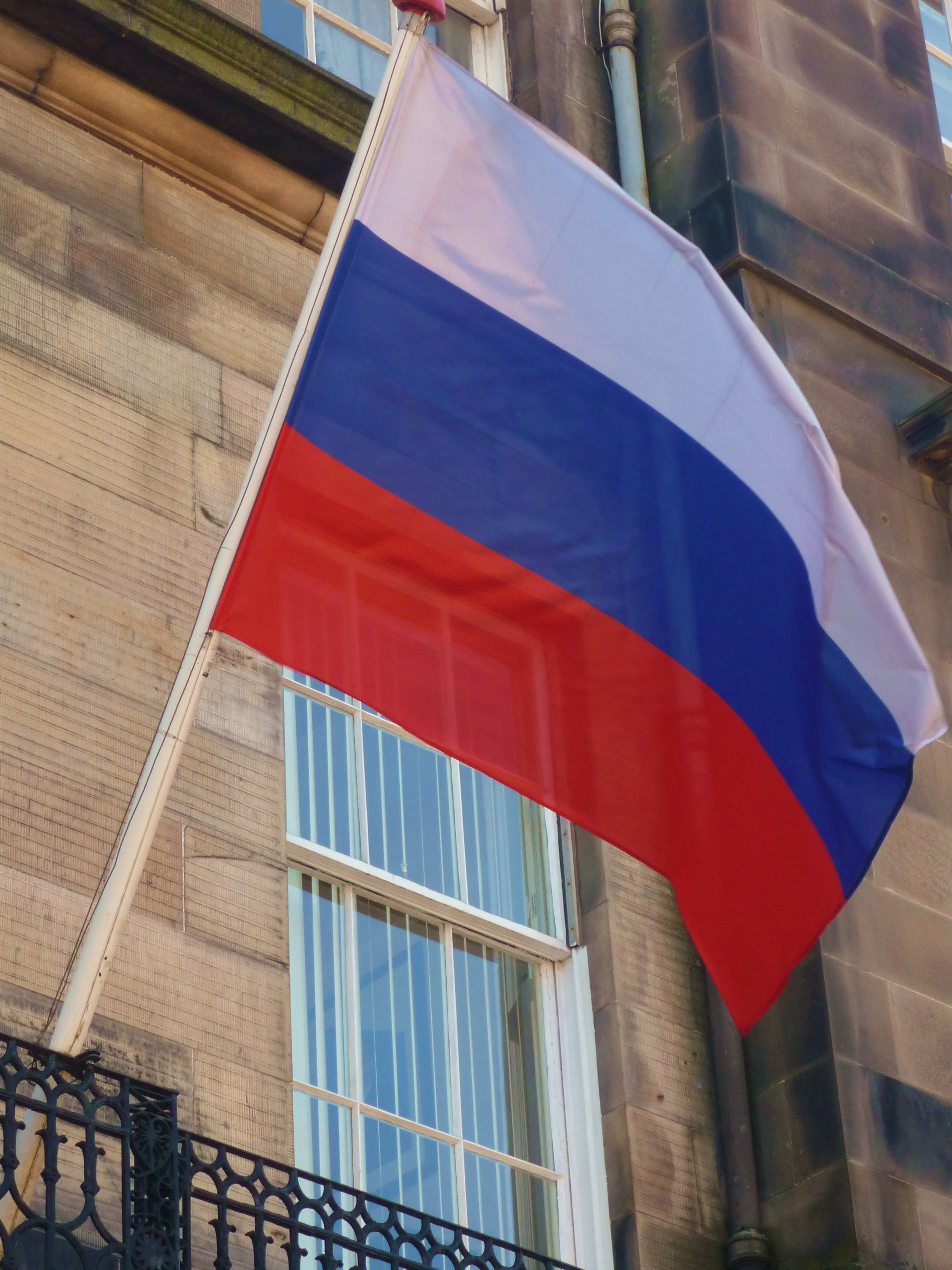 Russian Consulate, Edinburgh